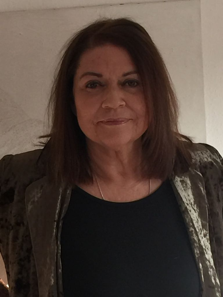 Portrait Foto pdf